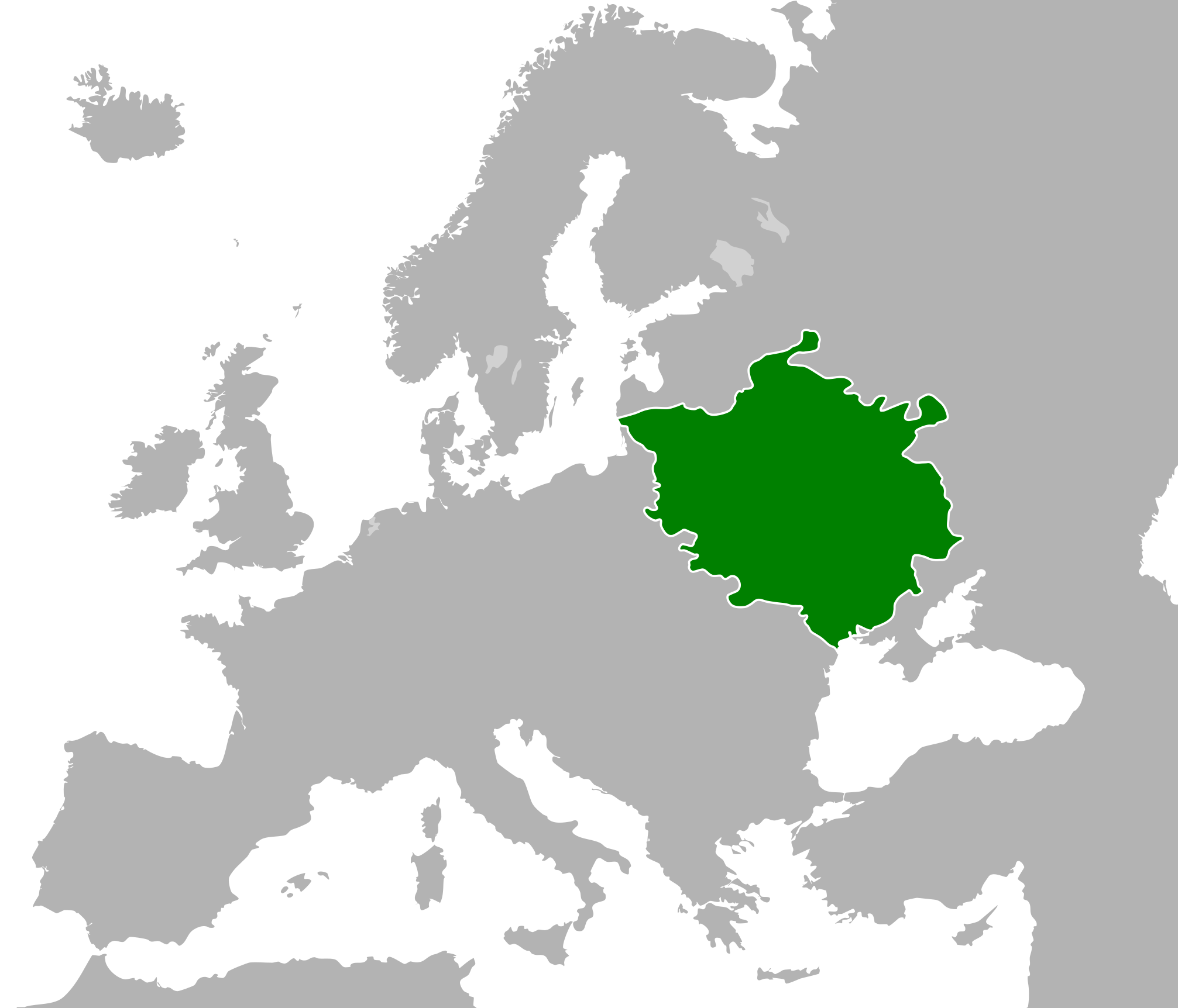 Grand Duchy of Lithuania